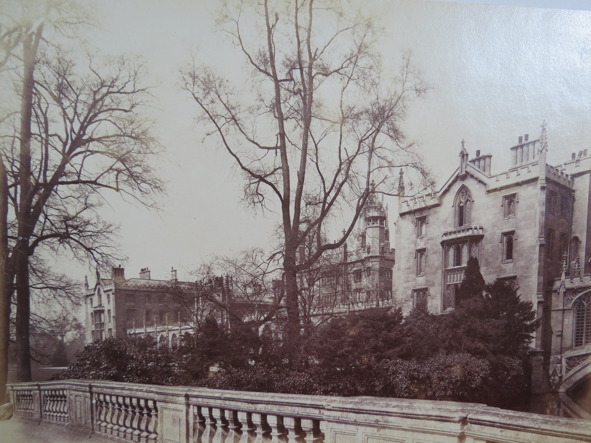 St. John's College, Cambridge University: New Court, as seen from Kitchen Bridge, circa 1870. The Bridge of Sighs can just be seen to right. Image taken from original albumen print from a bound album of 58 Cambridge University photographs. Original 19th century album in the possession of Kimberly Blaker, New Boston Fine and Rare Books.